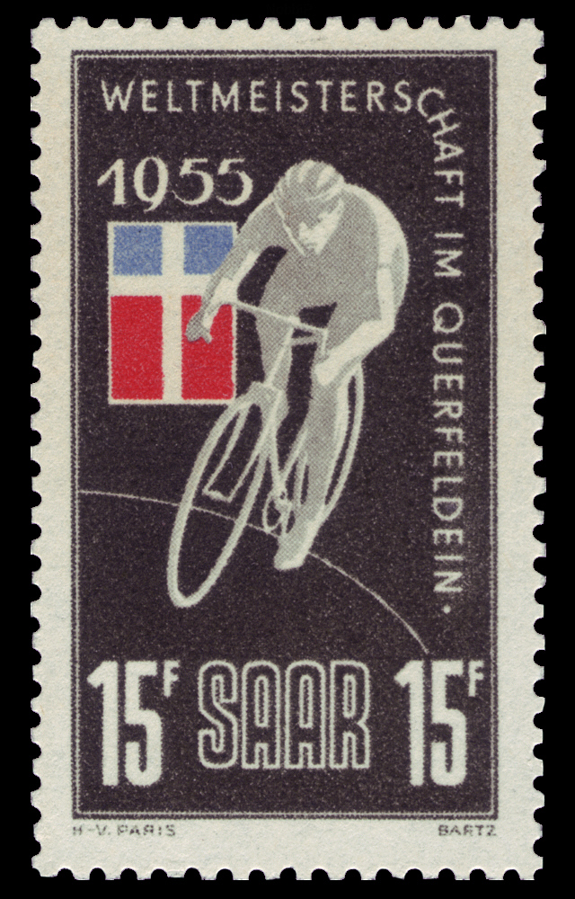 Bicycle World Championship 1955 Saarbrücken